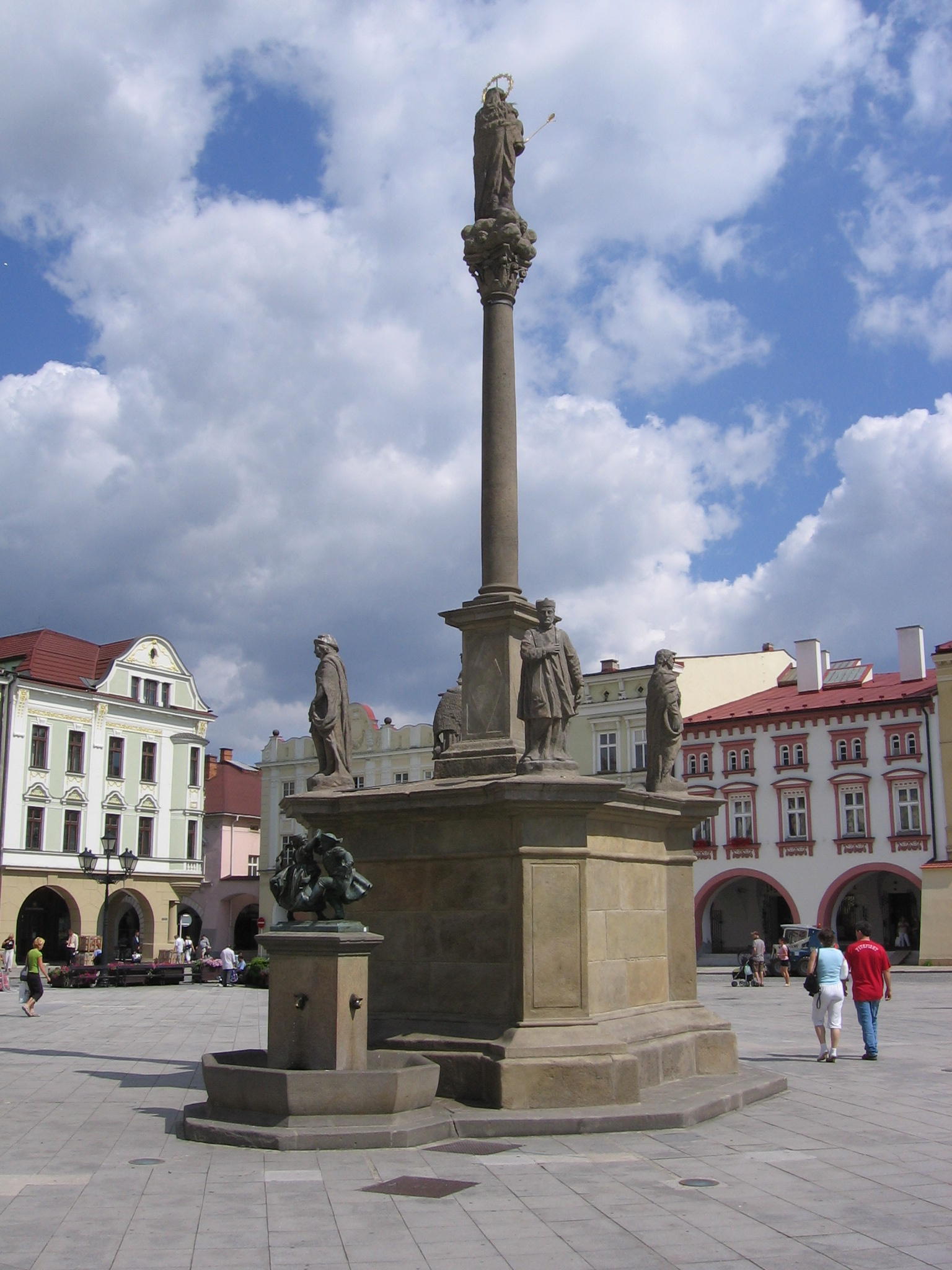 Column on the square in Nový Jičín, Czech Republic.